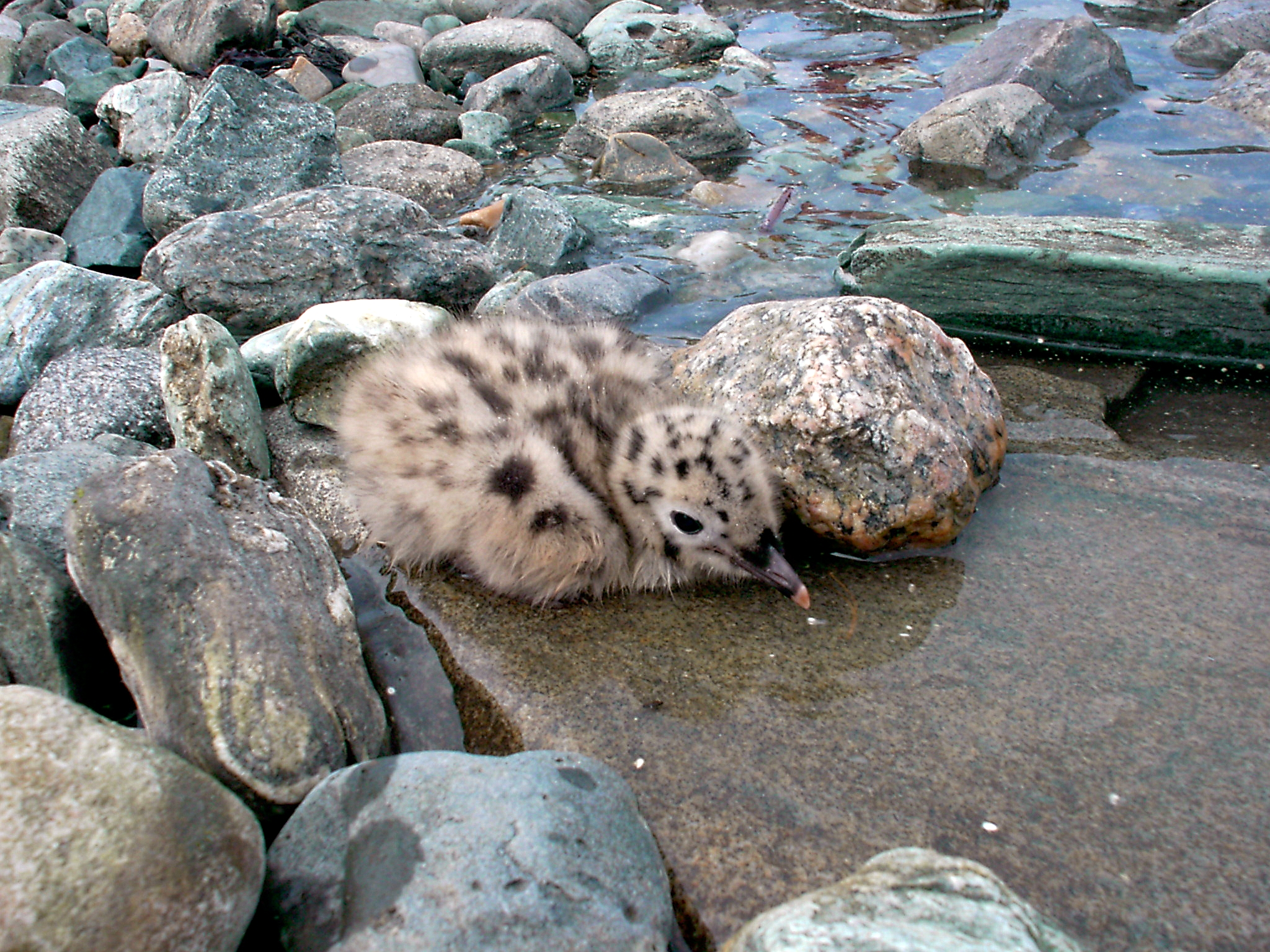 A baby gull (Larus sp., possibly L. canus, L. argentatus or L. fuscus) in Trondheim, Norway. Taken and released into the public domain by User:Kallemax.